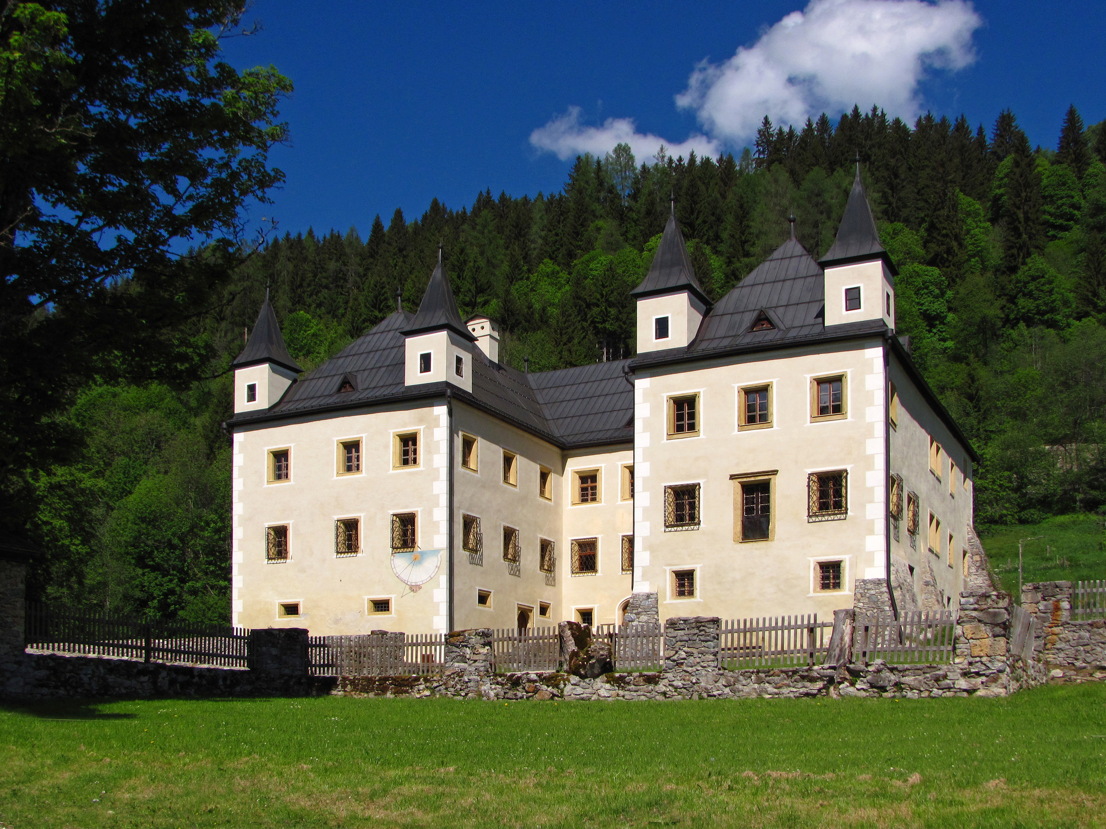 Schloss Höch